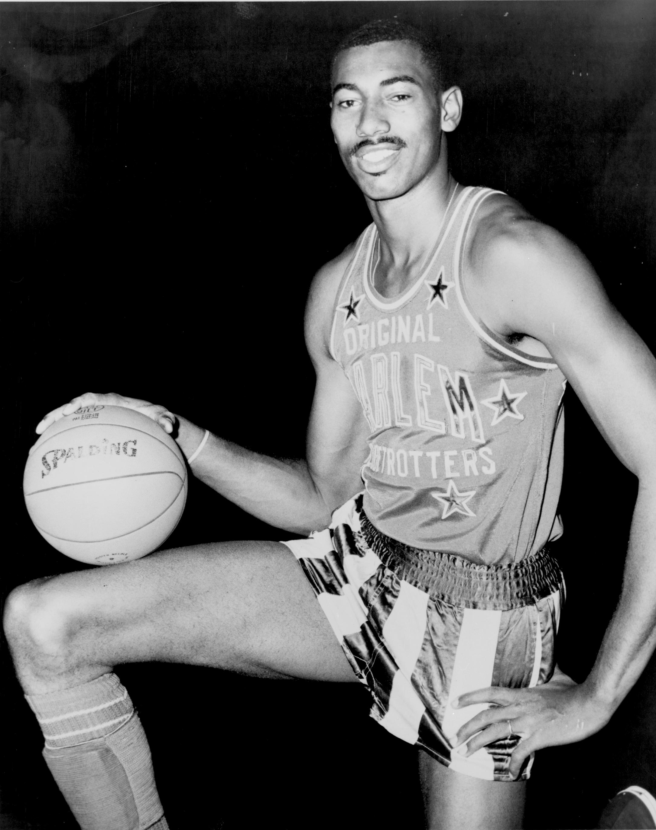 Wilt Chamberlain, American basketball player wearing uniform of Harlem Globetrotters.